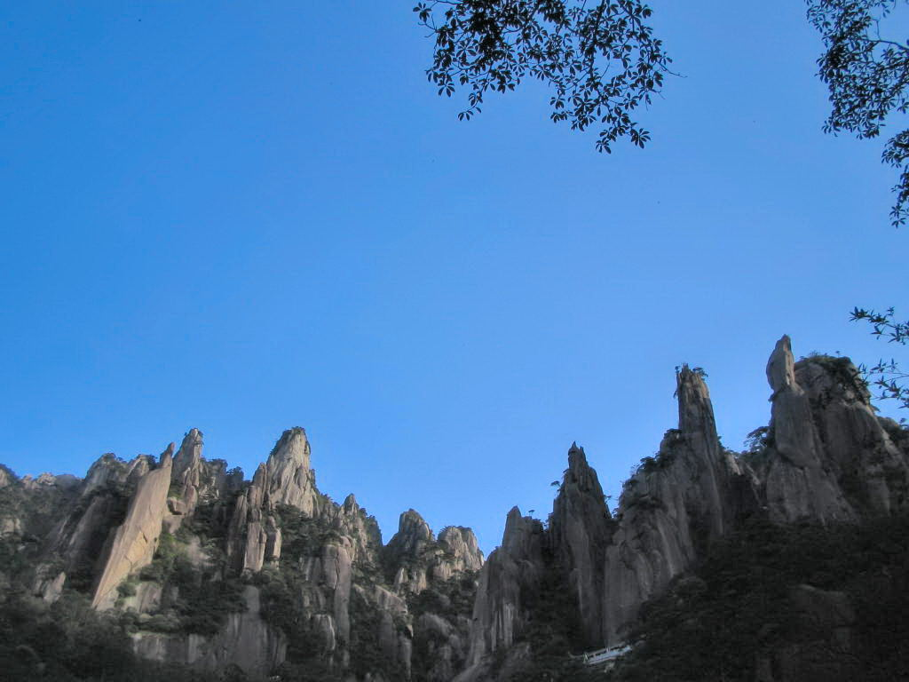 三清山風景 landscape